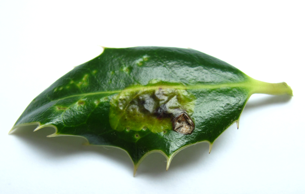 Holly leaf showing mines of holly leaf miner Phytomyxa ilicis